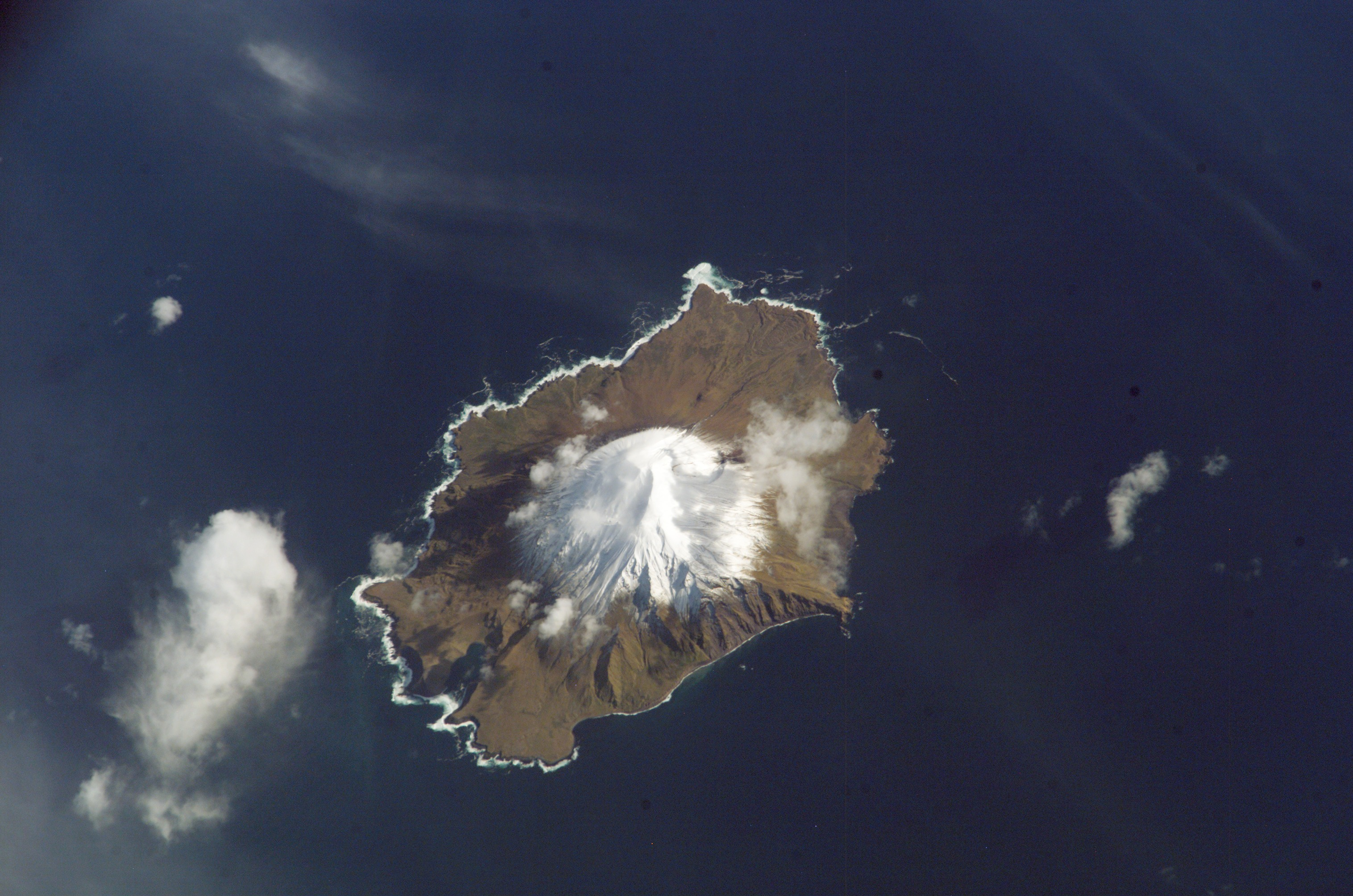 Aleutian Islands/Segula Island